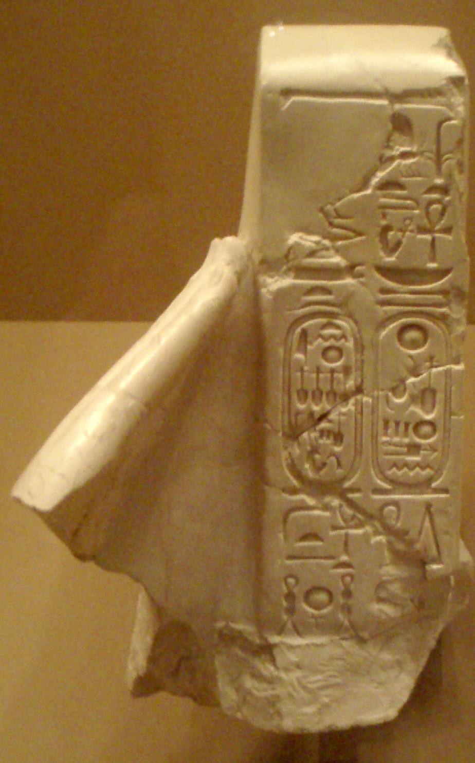 A fragmentary statue of the pharaoh wearing the white crown from the Great Temple of the Aten.